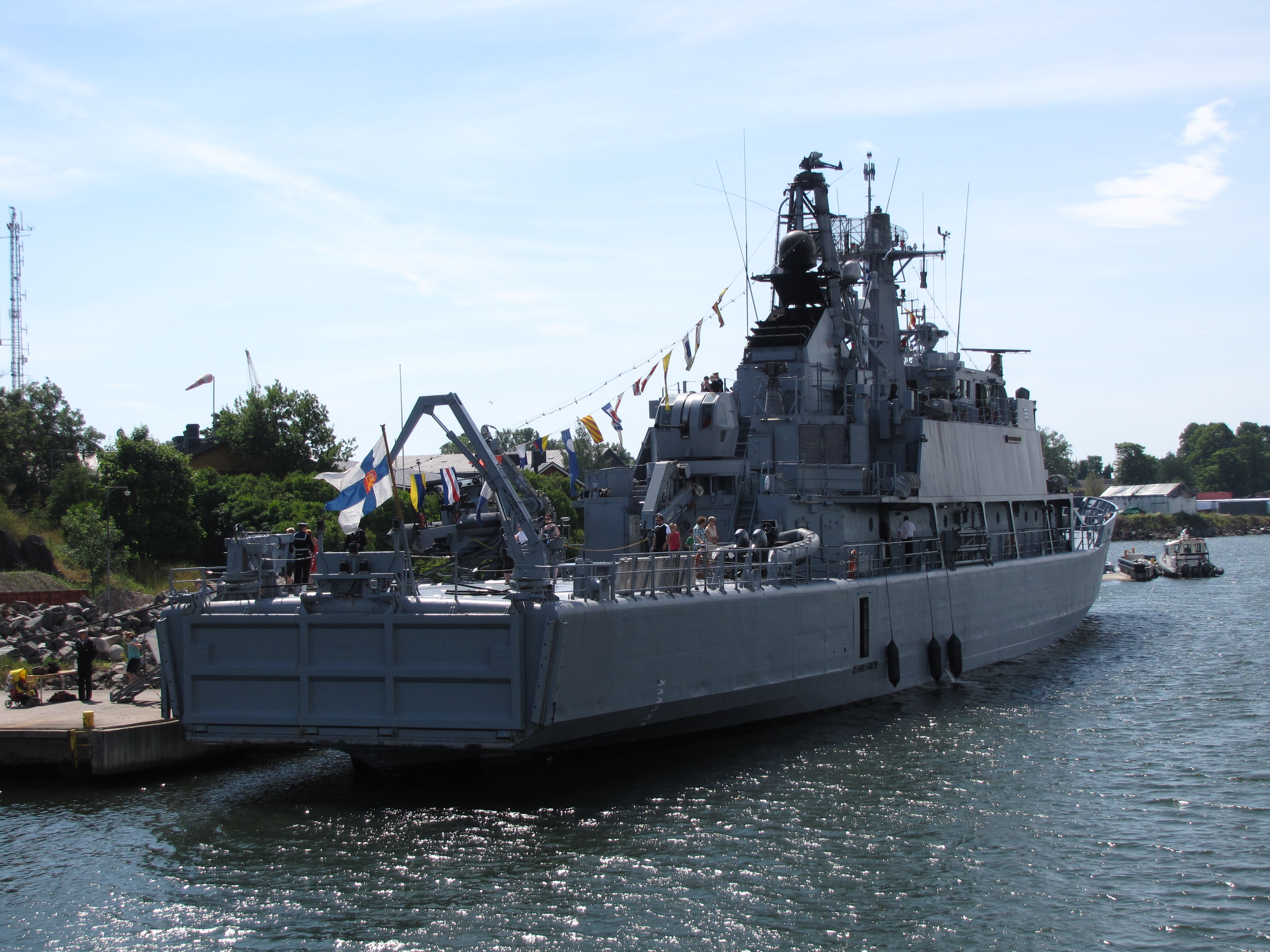 Finnish minelayer Pohjanmaa (01) in Suomenlinna.